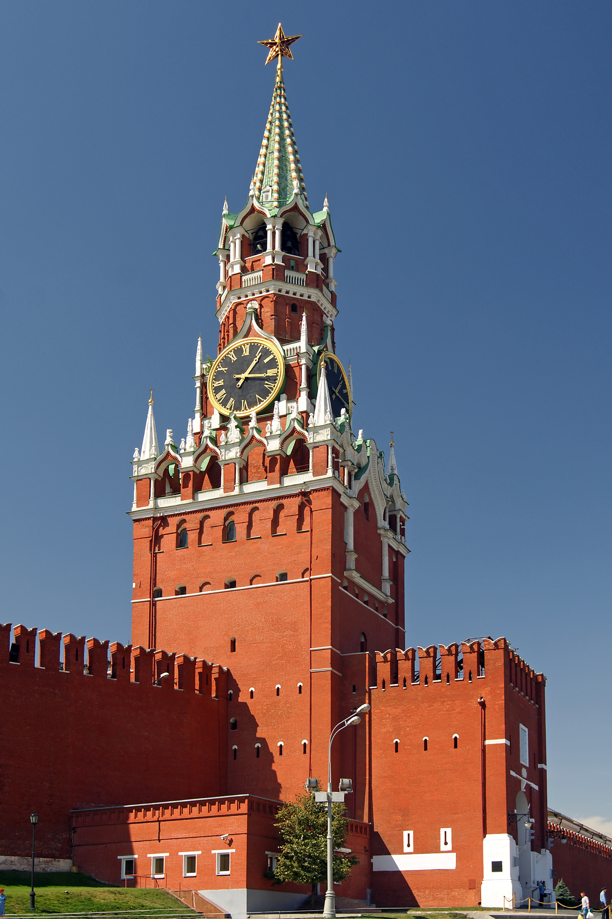 The Saviour tower